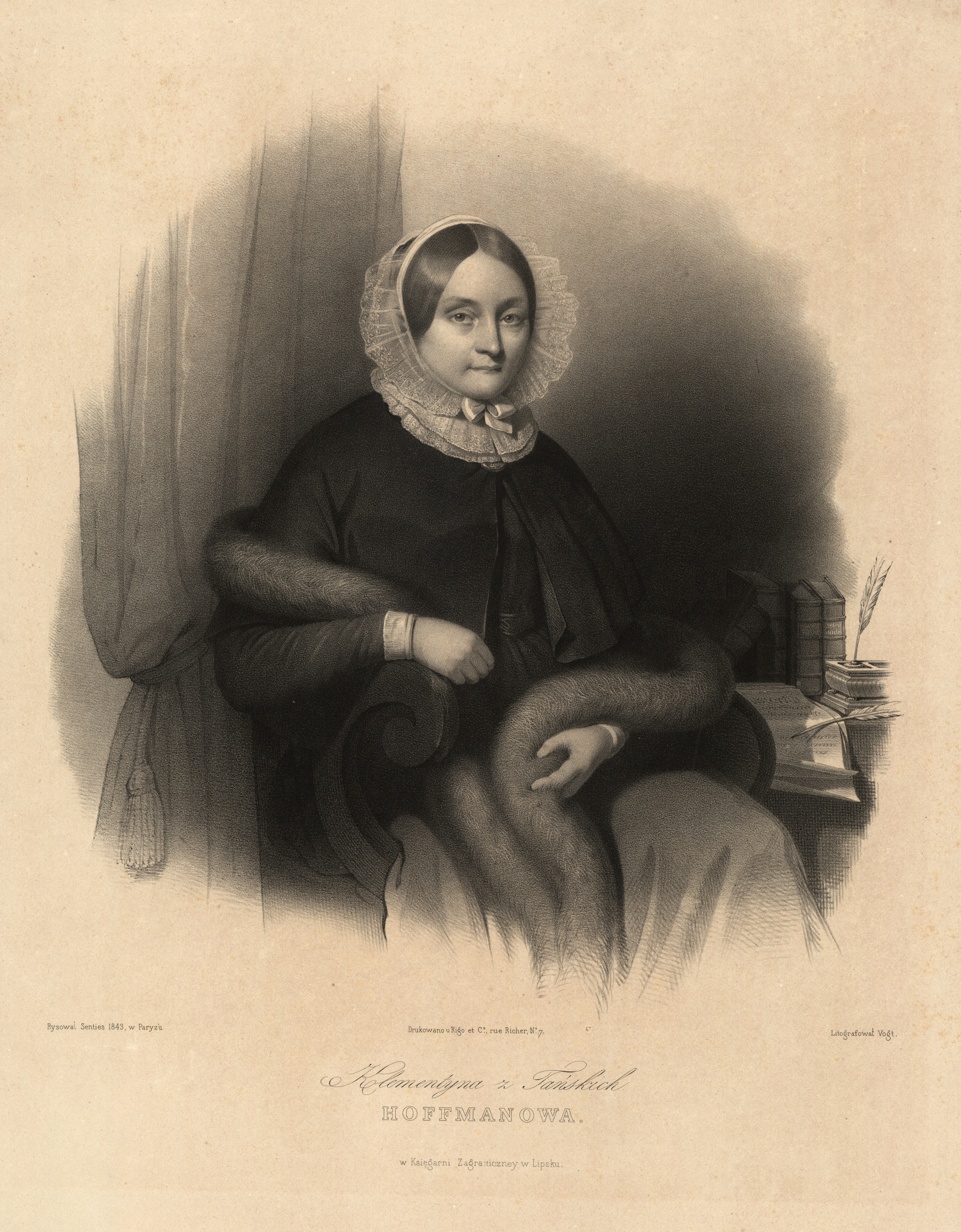 Klementyna Hoffmanowa (born Klementyna Tańska; 1798 – 1845), Polish popular literary writer, translator, editor, and one of Poland's first writers of children's literature. She co-organized and chaired the Patriotic Charity Association. She was the first woman in Poland to support herself from writing and teaching, and considered herself primarily a writer. Below the image there is a facsimile of the autograph. Lithography according to the pattern by Pierre Asthasie Théodore Senties.